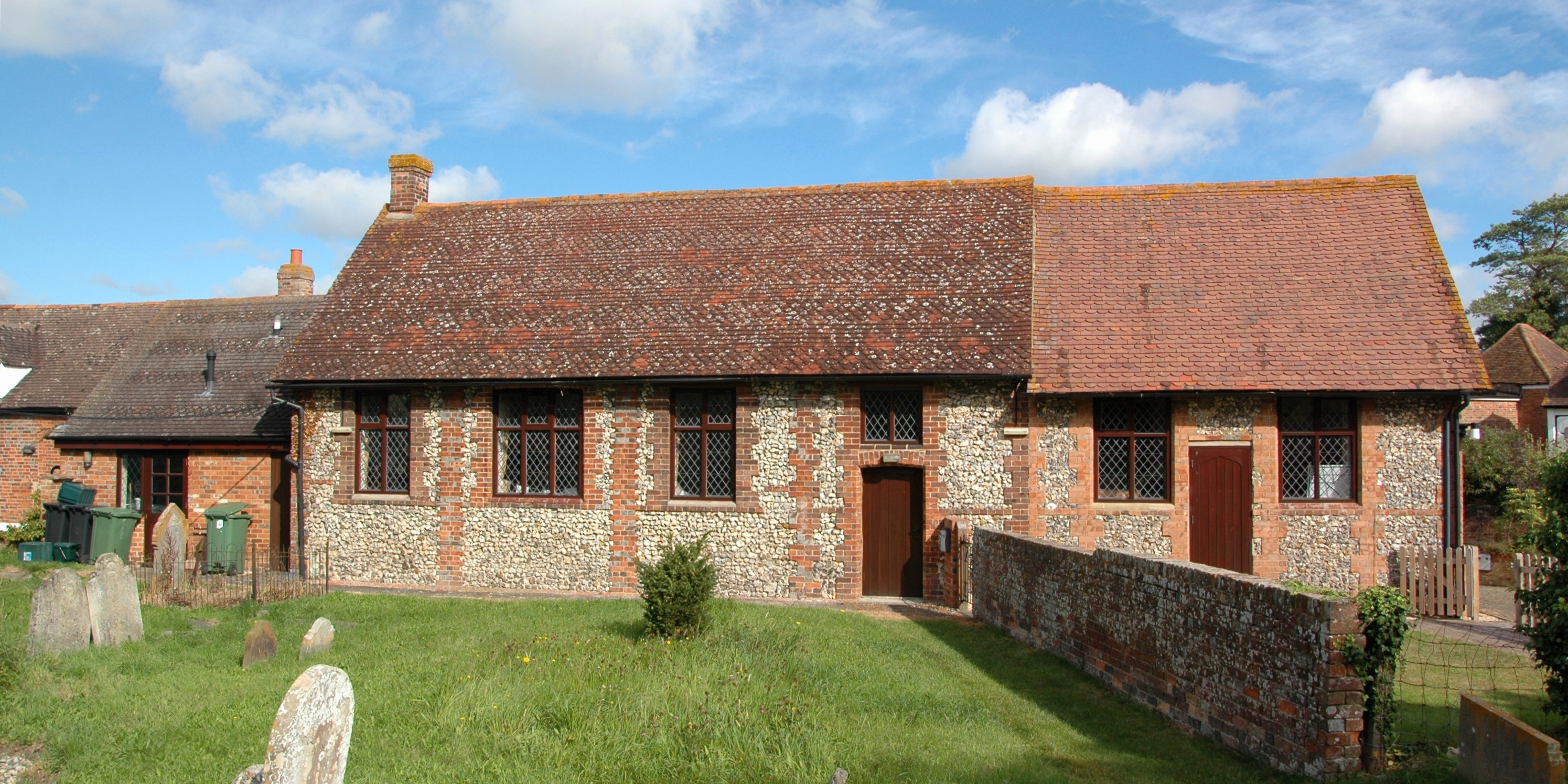 Sydenham, Oxfordshire: the Old School, viewed from the south